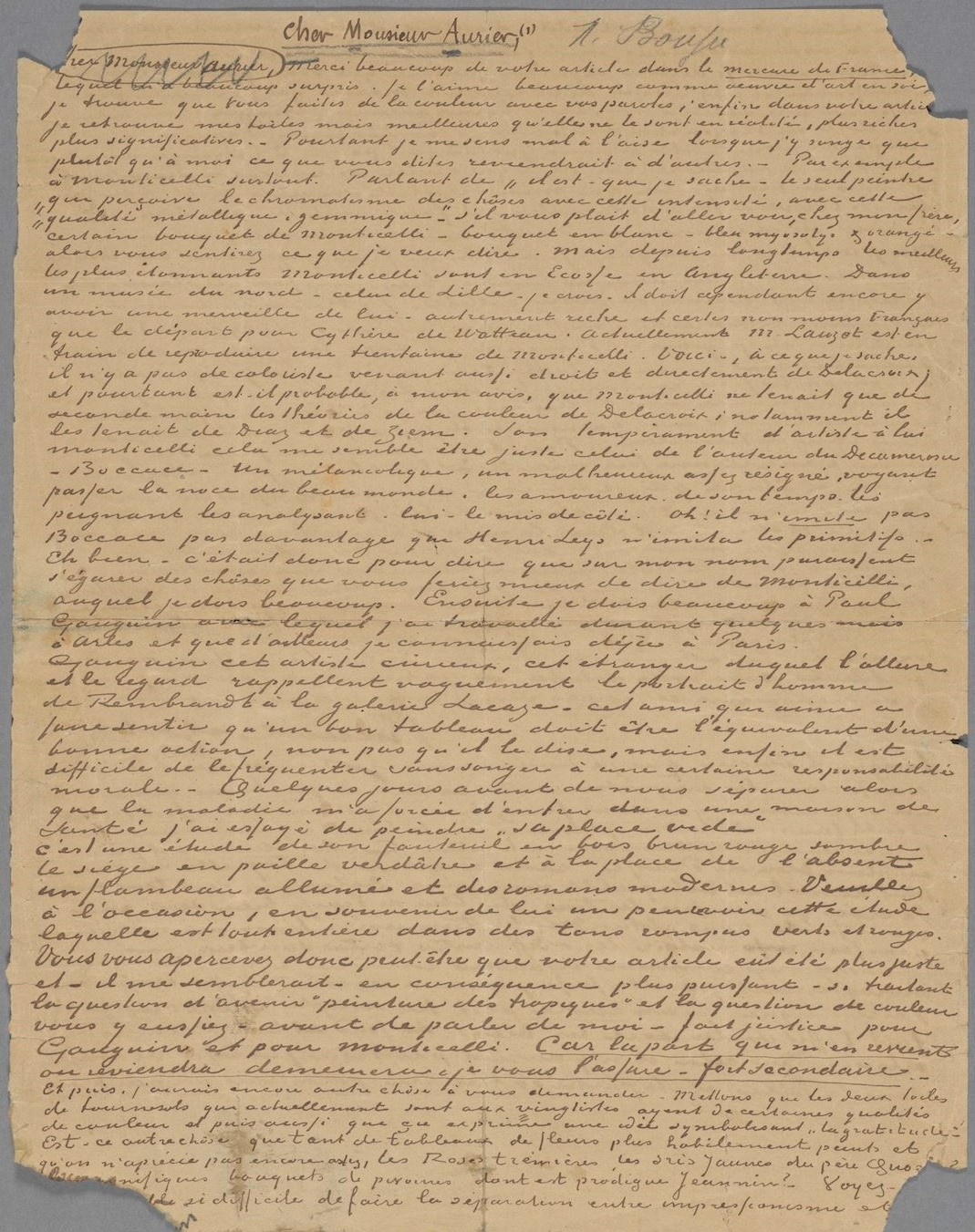 The front of the letter from Vincent van Gogh to Albert Aurier (Gabriel Albert Aurier), thanking him for his praising article in the Mercure de France. Van Gogh Museum, Amsterdam (gift of Mr and Mrs Cheung Chung Kiu).